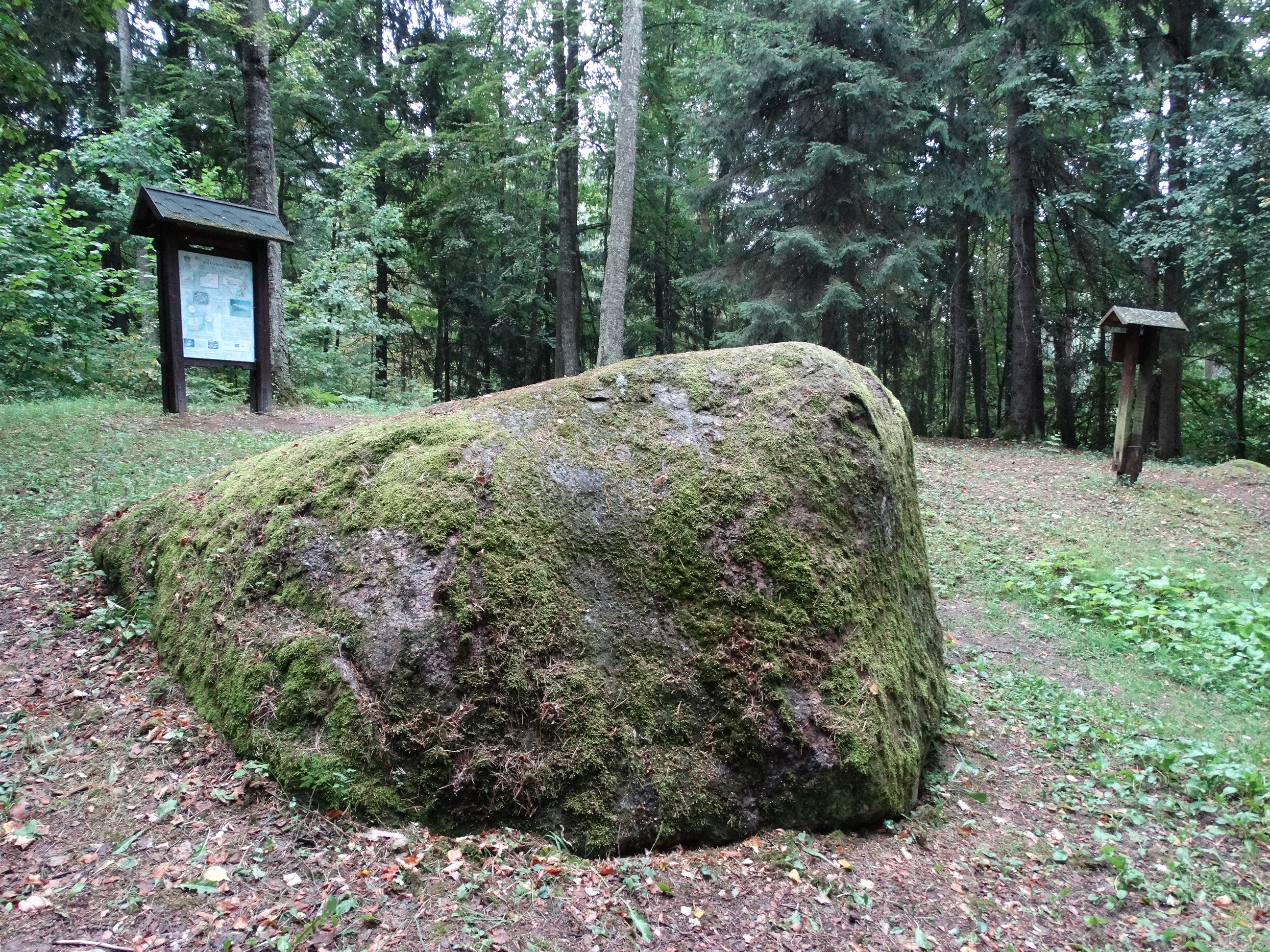 Stone in Pavarės, Anykščiai District, Lithuania